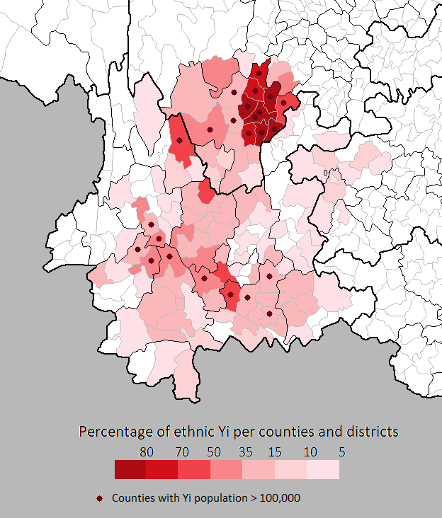 Ethnic Yi in China as percentage of population of country level, 2000 census